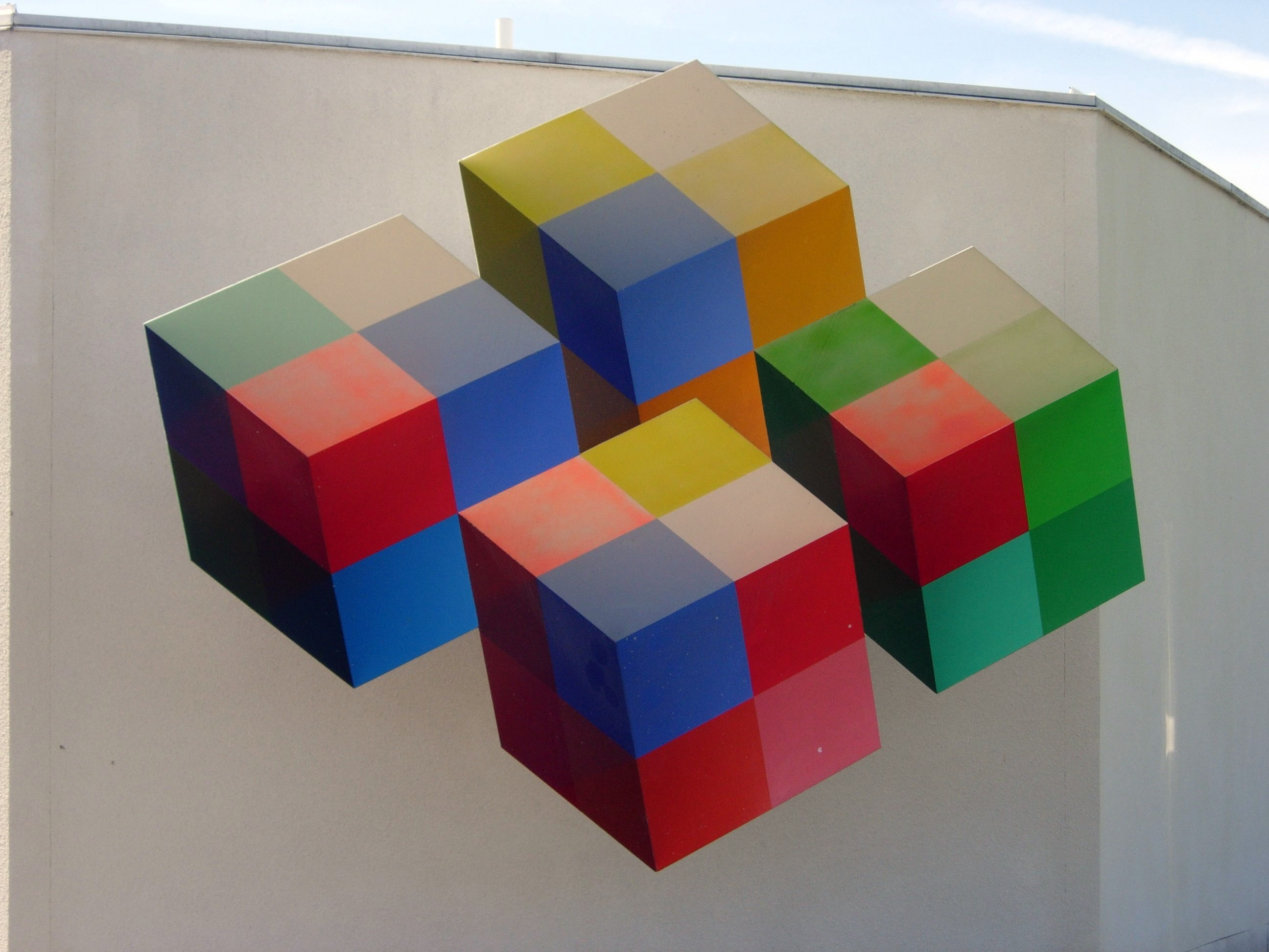 Optical illusion at the Heureka science center. What appears to be squares aren't. See Isometric illusion.